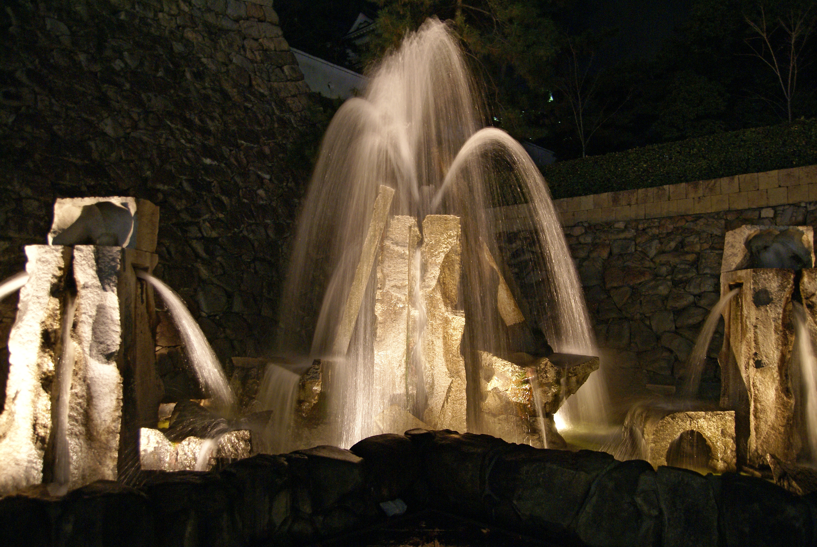 a fountain in front of Fukuyama Castle Fukuyama, Hiroshima prefecture, Japan